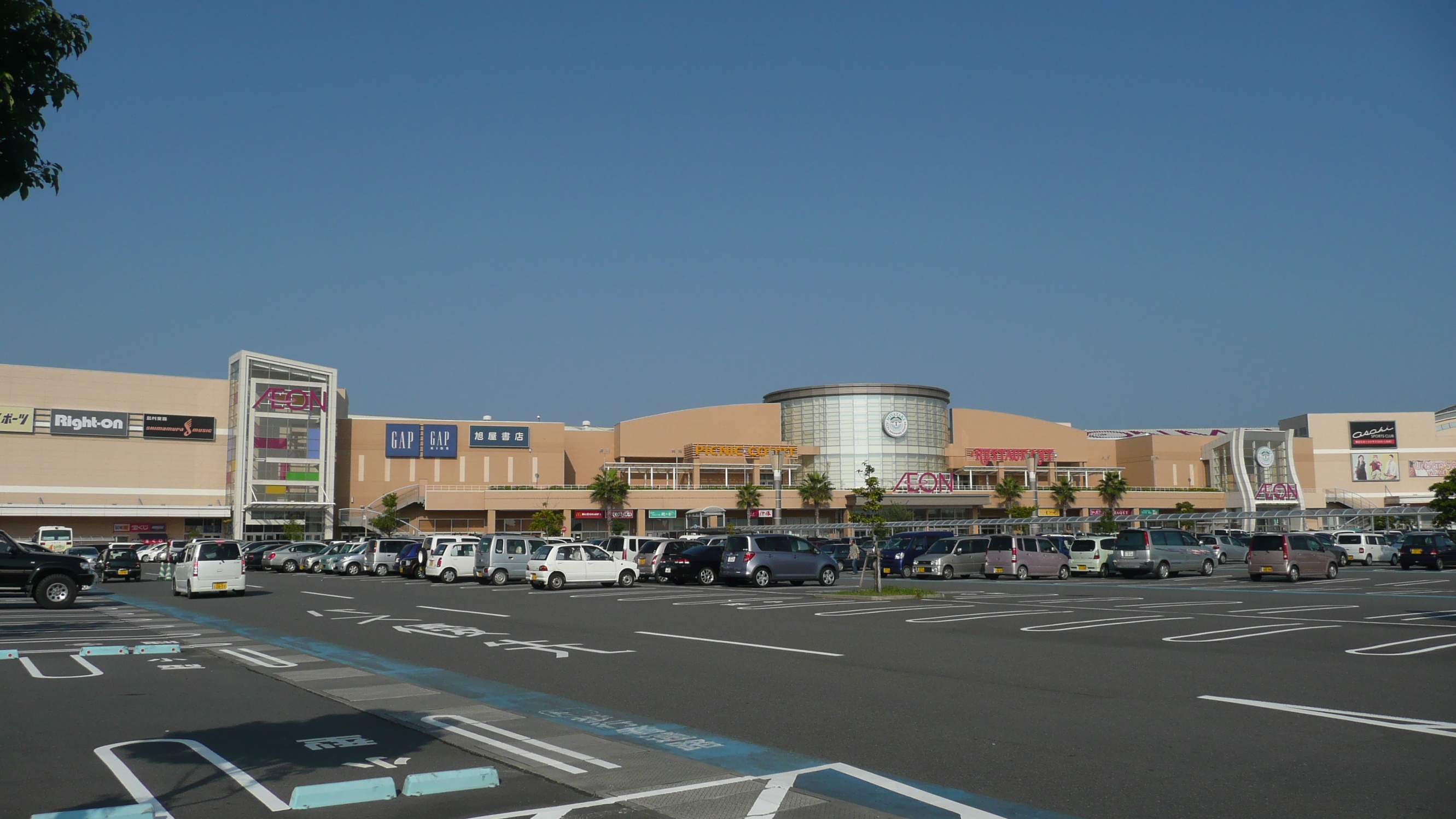 Aeonmall Miyazaki on October, 2008 (Miyazaki City, Japan)